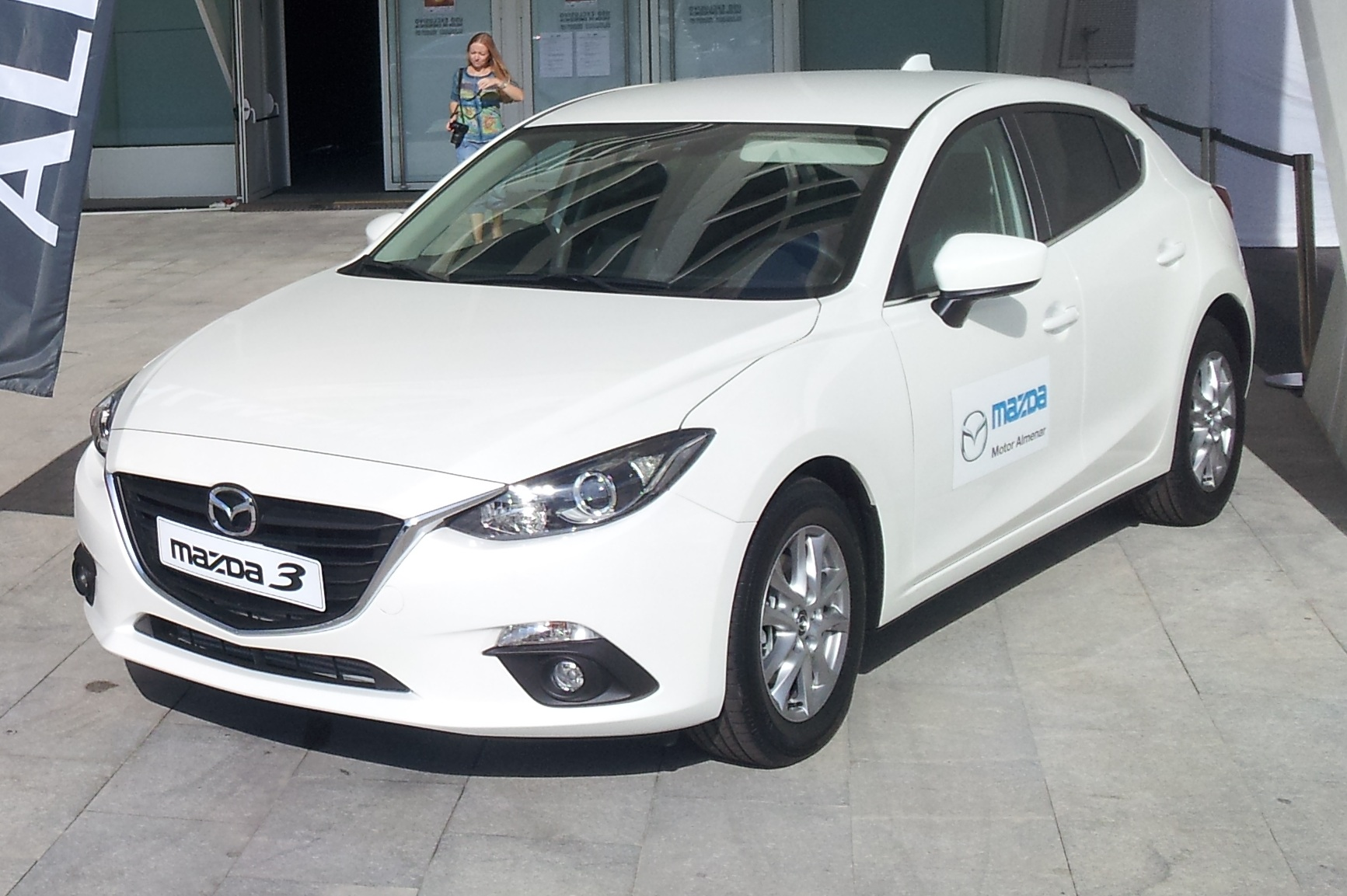 Mazda3 BM